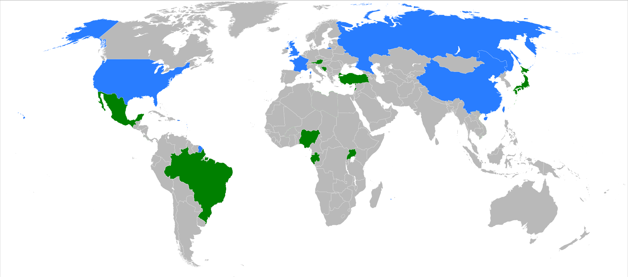 Map of the world showing the United Nations Security Council in 2010. Permanent member 2010 members